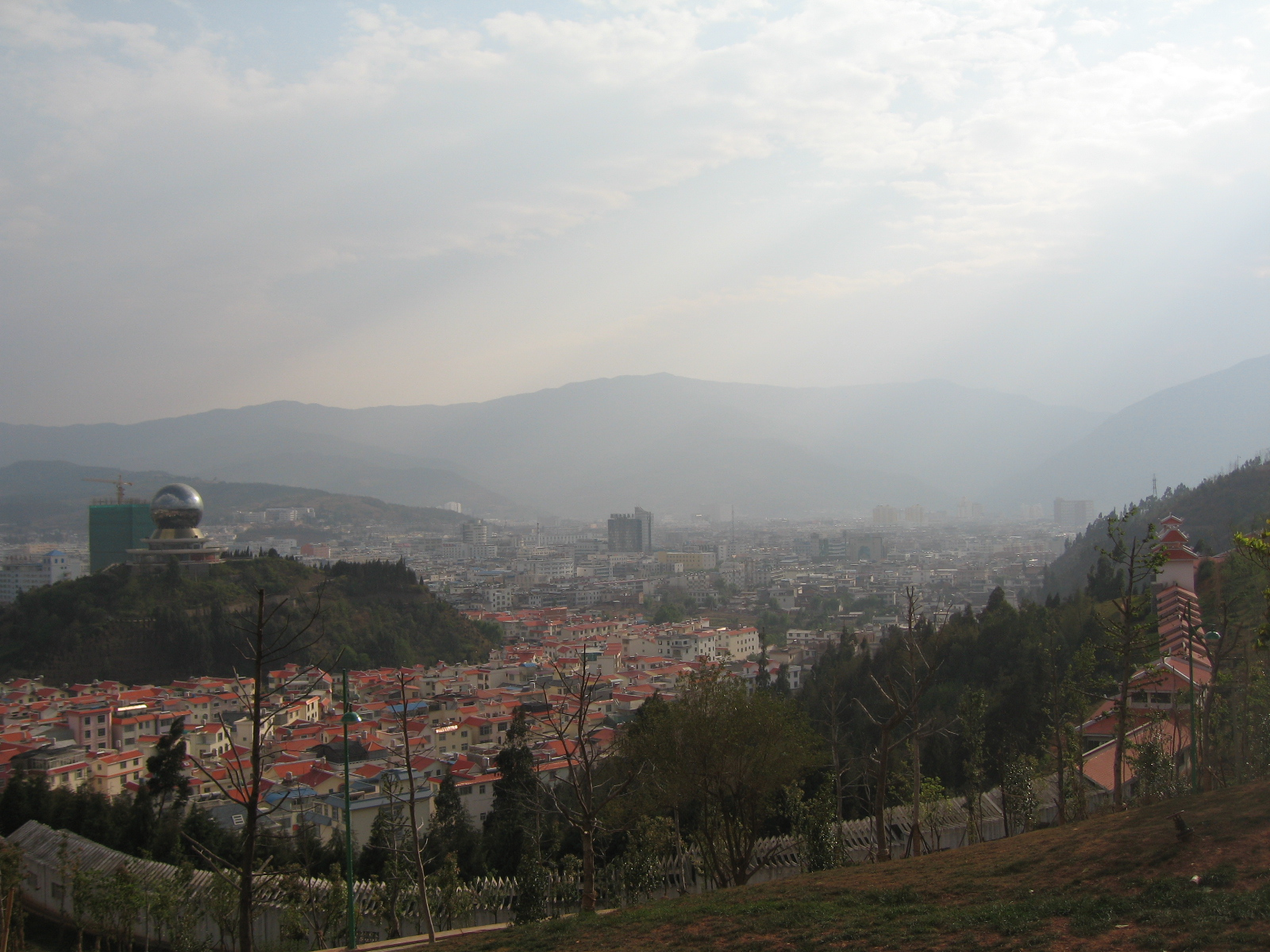 General view of Xiaguan Town (new Dali City).